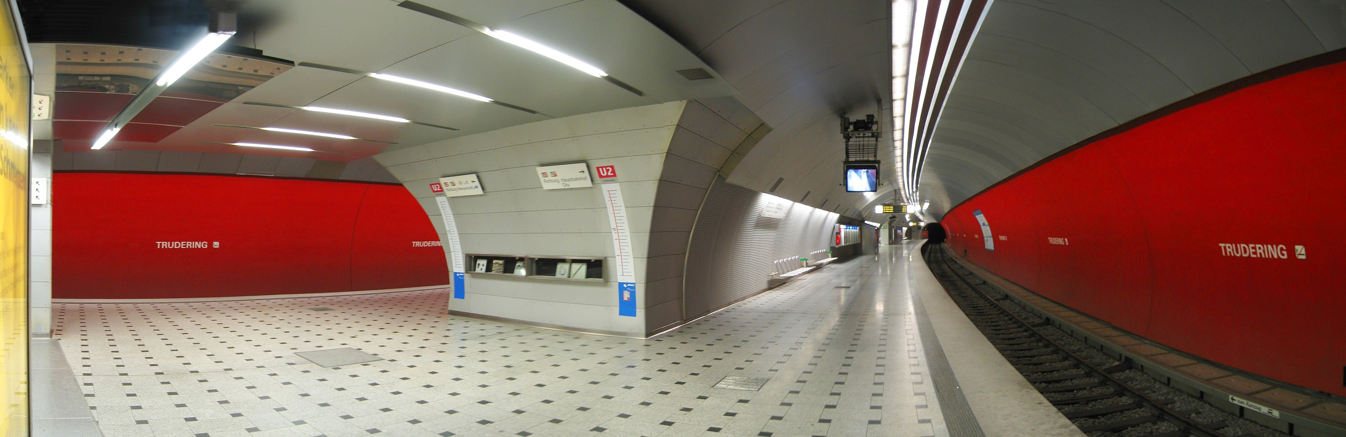 Munich subway station Trudering (U2)